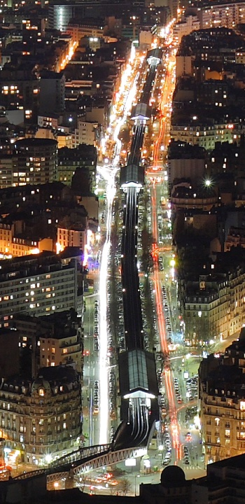 Lossless crop of the panorama of Paris centered on the line 6 of the Paris's metro. From bottom to top (east to west): Sèvres - Lecourbe, Cambronne, La Motte-Picquet - Grenelle and Dupleix